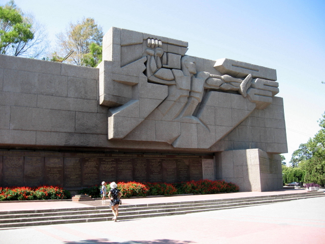 Monument for 2nd siege of Sevastopol. Built in 1967. Sculptor V.V.Yakovlev, architect I.E.Fialko.